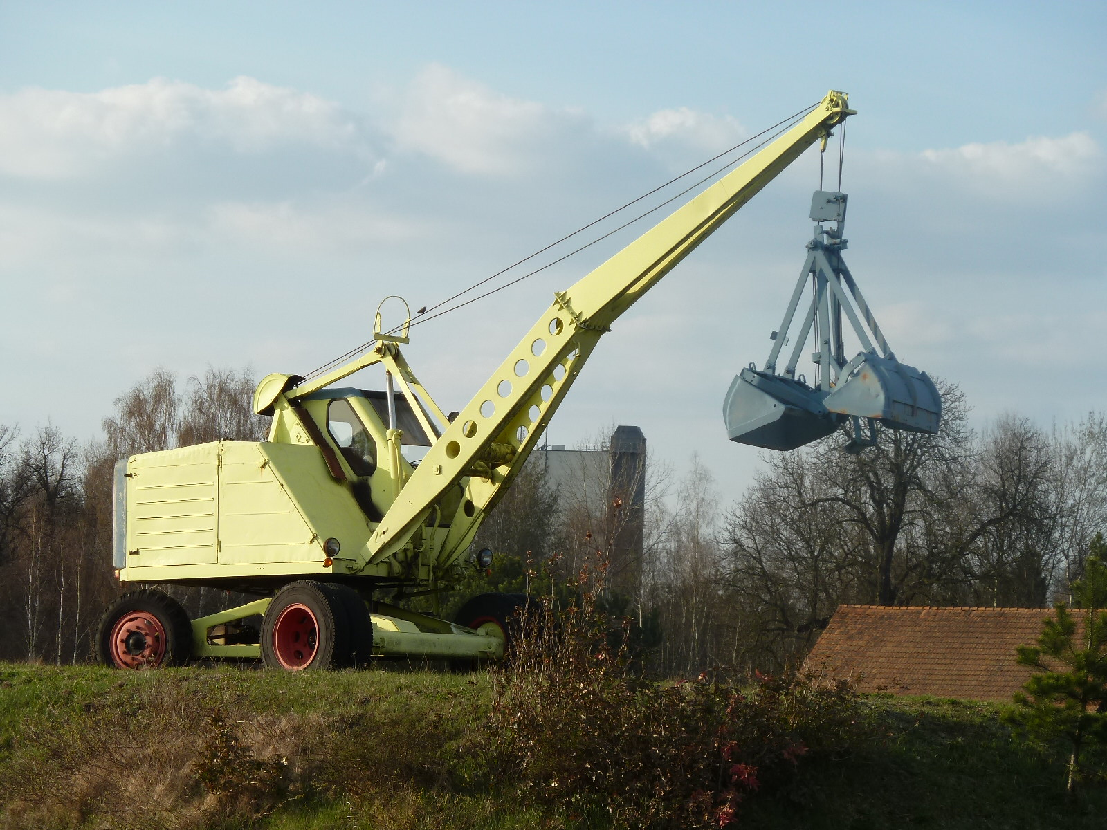 T 172 at German Bundesstraße 115 in Krauschwitz in front of the Nadebor location, the Keulahütte tower is visible in the background.